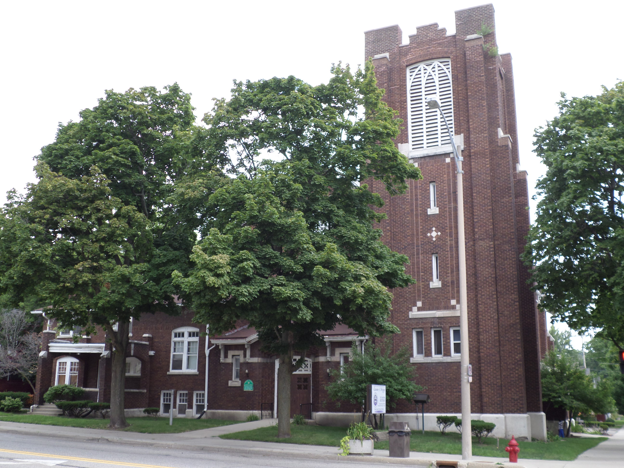 North Presbyterian Church, now the Epicenter of Worship Church, located at 108 W. Grand River Ave, Lansing, MI.